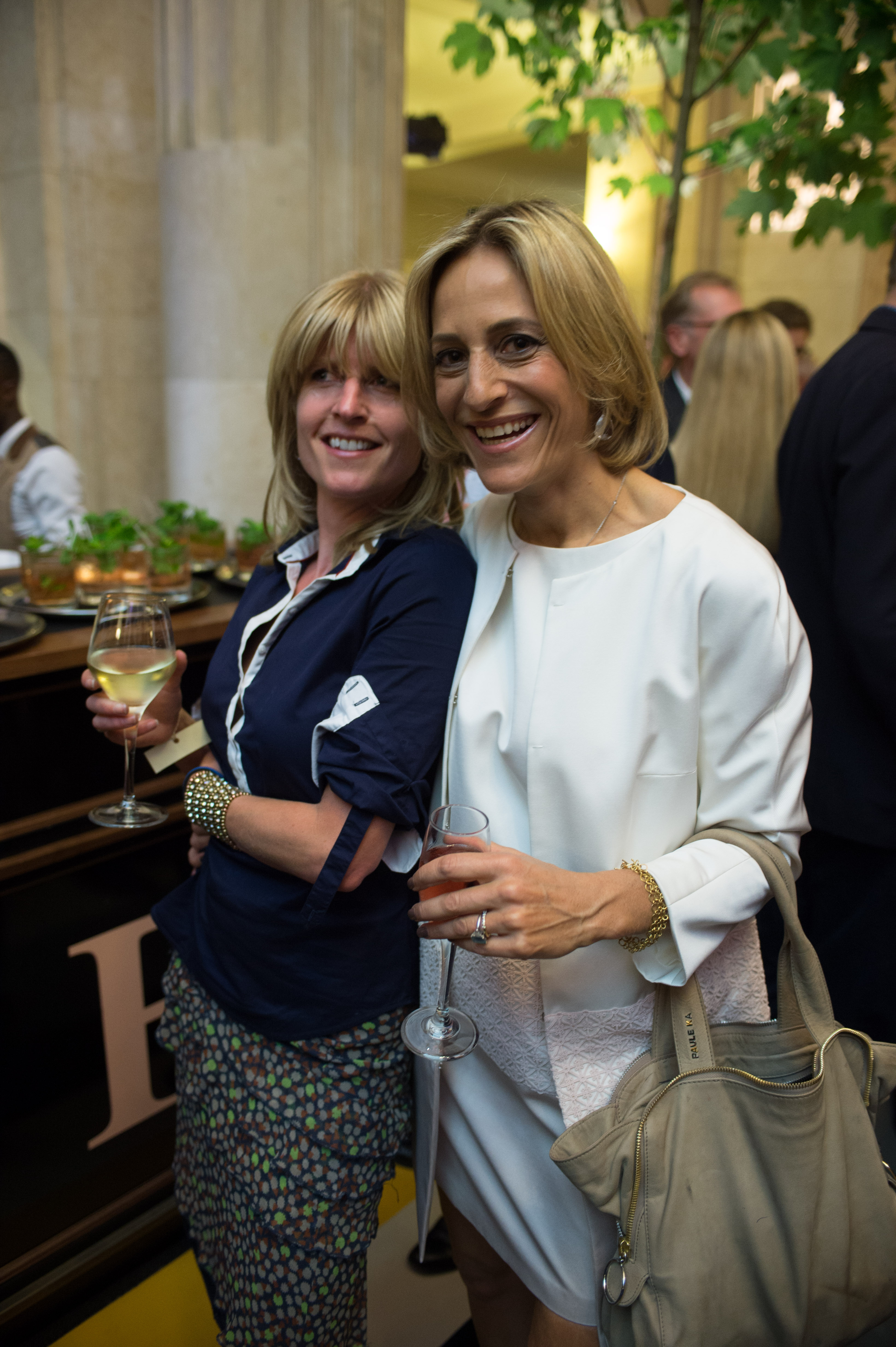 FT SUMMER PARTY 2014. Rachel Johnson (L) and Emily Maitlis